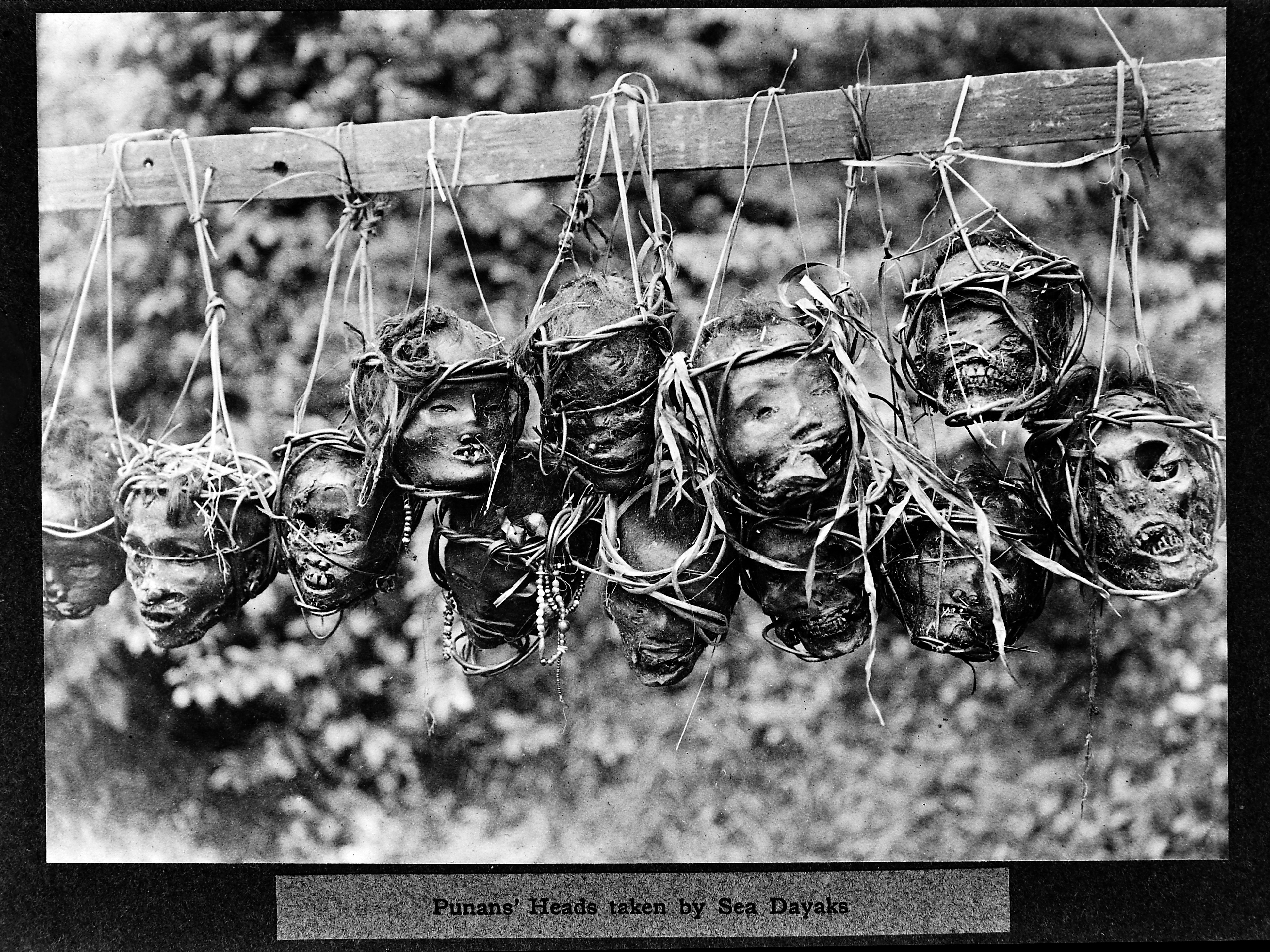 Punan's heads taken by Sea Dayaks Wellcome Images Keywords: indigenous: weapons, implements, etc.; indigenous non-european medicine; Ethnography